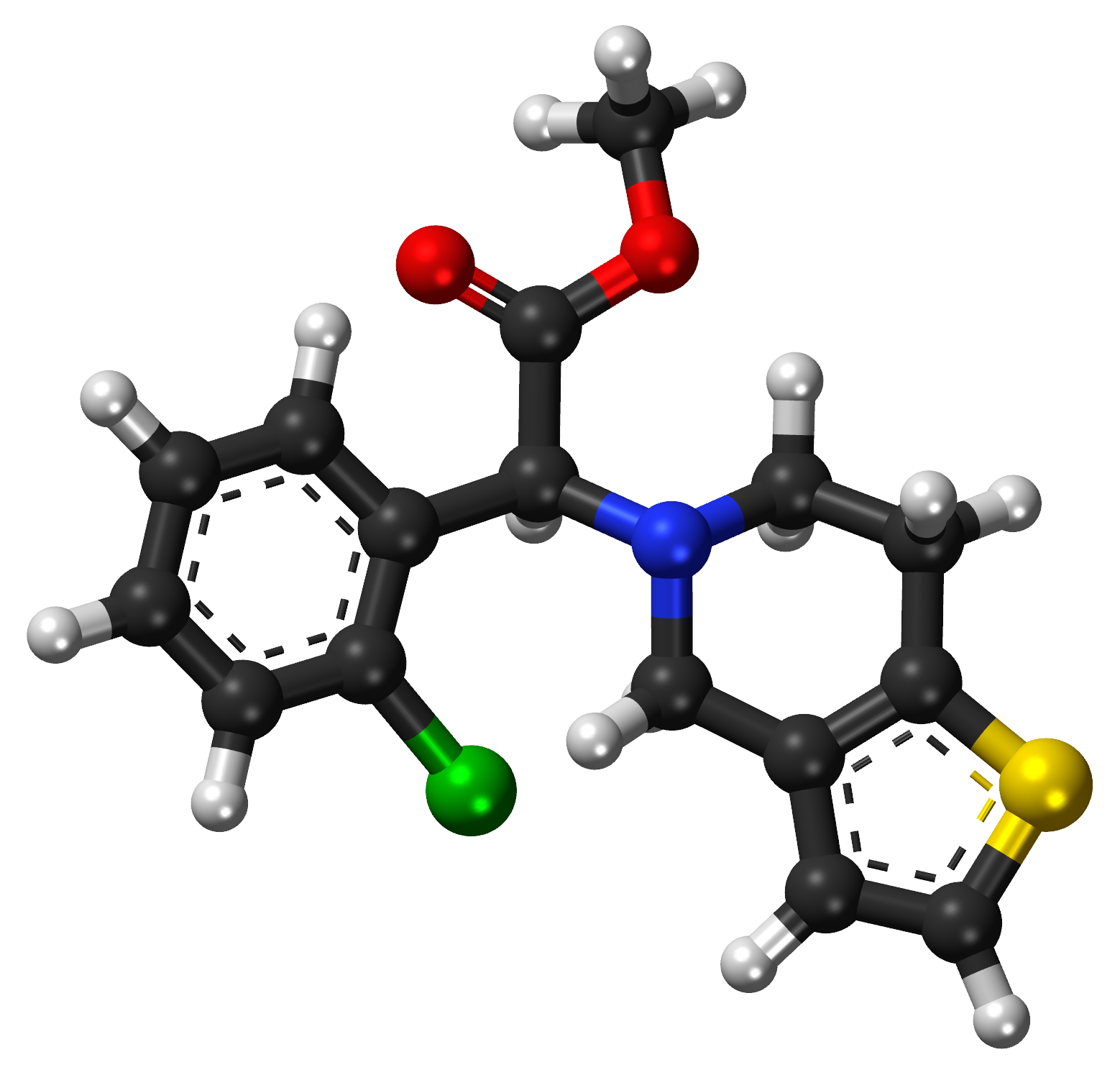 Ball-and-stick model of clopidogrel (original brand name Plavix)—an antiplatelet drug. Created using Accelrys DS Visualizer 4.1 and Adobe Photoshop CC 2014. Colors used: Carbon, C: dark grey Hydrogen, H: light grey Nitrogen, N: blue Oxygen, O: red Sulfur, S: yellow Chlorine, Cl: green This image was created with Discovery Studio Visualizer.